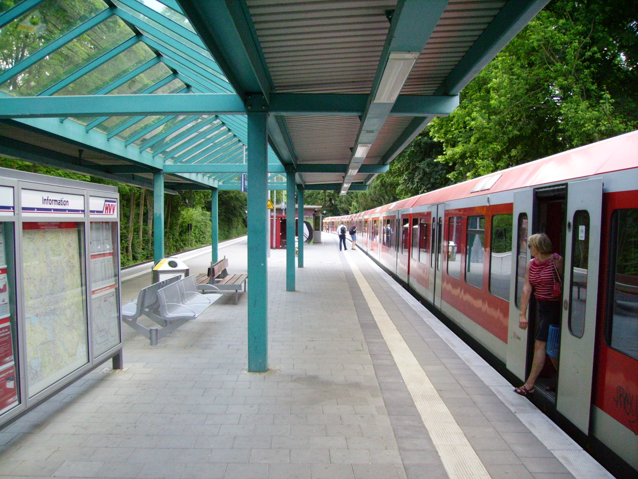 Hochkamp railway station, rapid transit, Hamburg S-Bahn, Hamburg, Germany